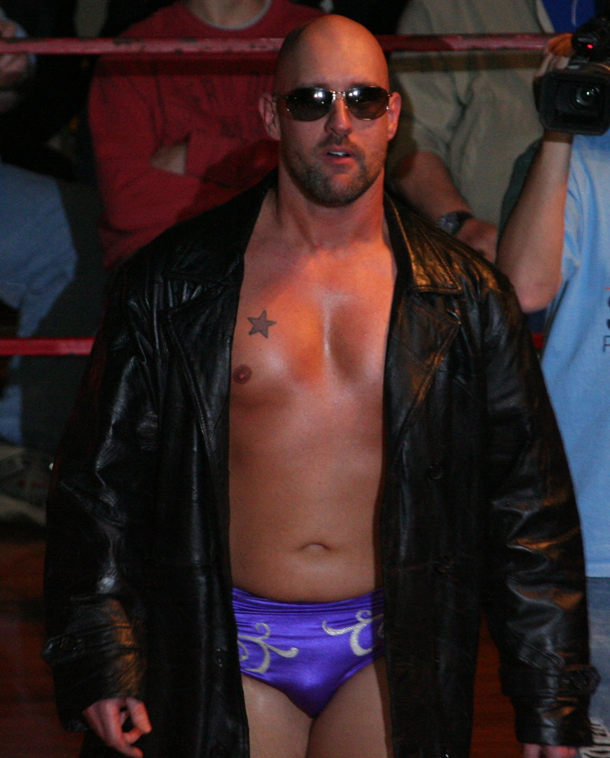 Ric Converse at the Chinlock for Chuck event in January 2012 in Durham, North Carolina.